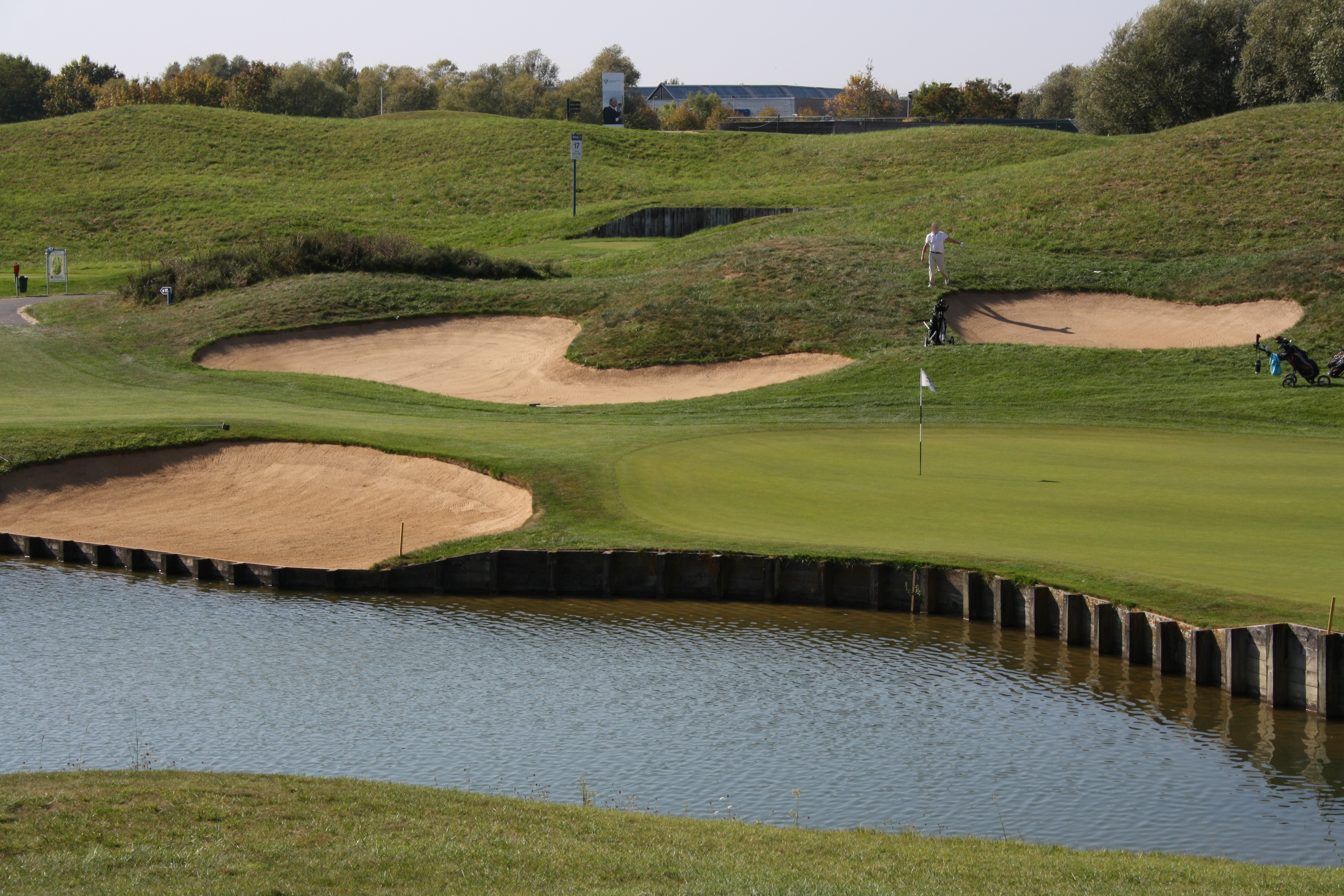 View of the Golf national, a golf course in Guyancourt, France.